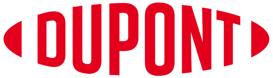 Logo of DuPont.